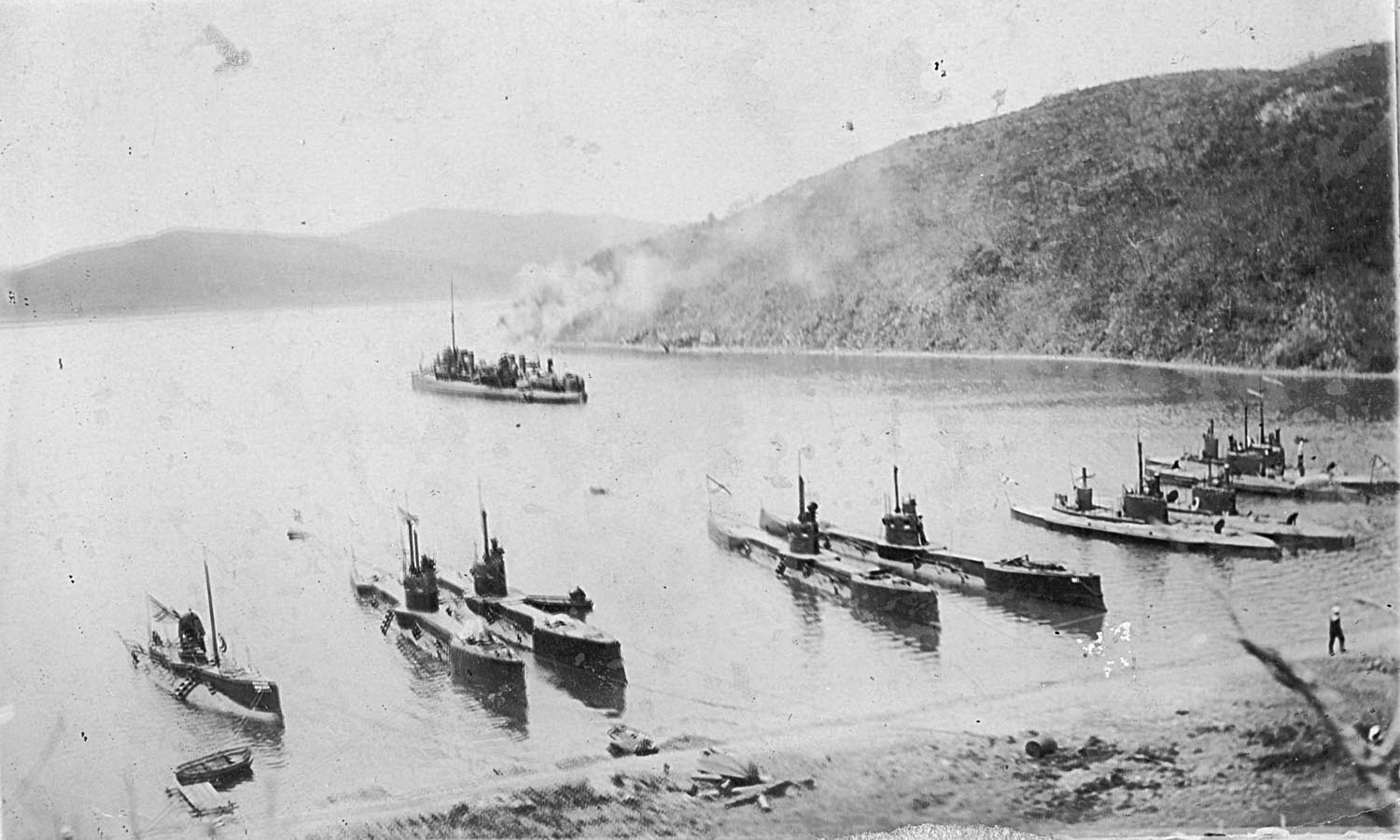 The Imperial Russian Siberian Military Flotilla in the Uliss Bay in Vladivostok, September 1908.